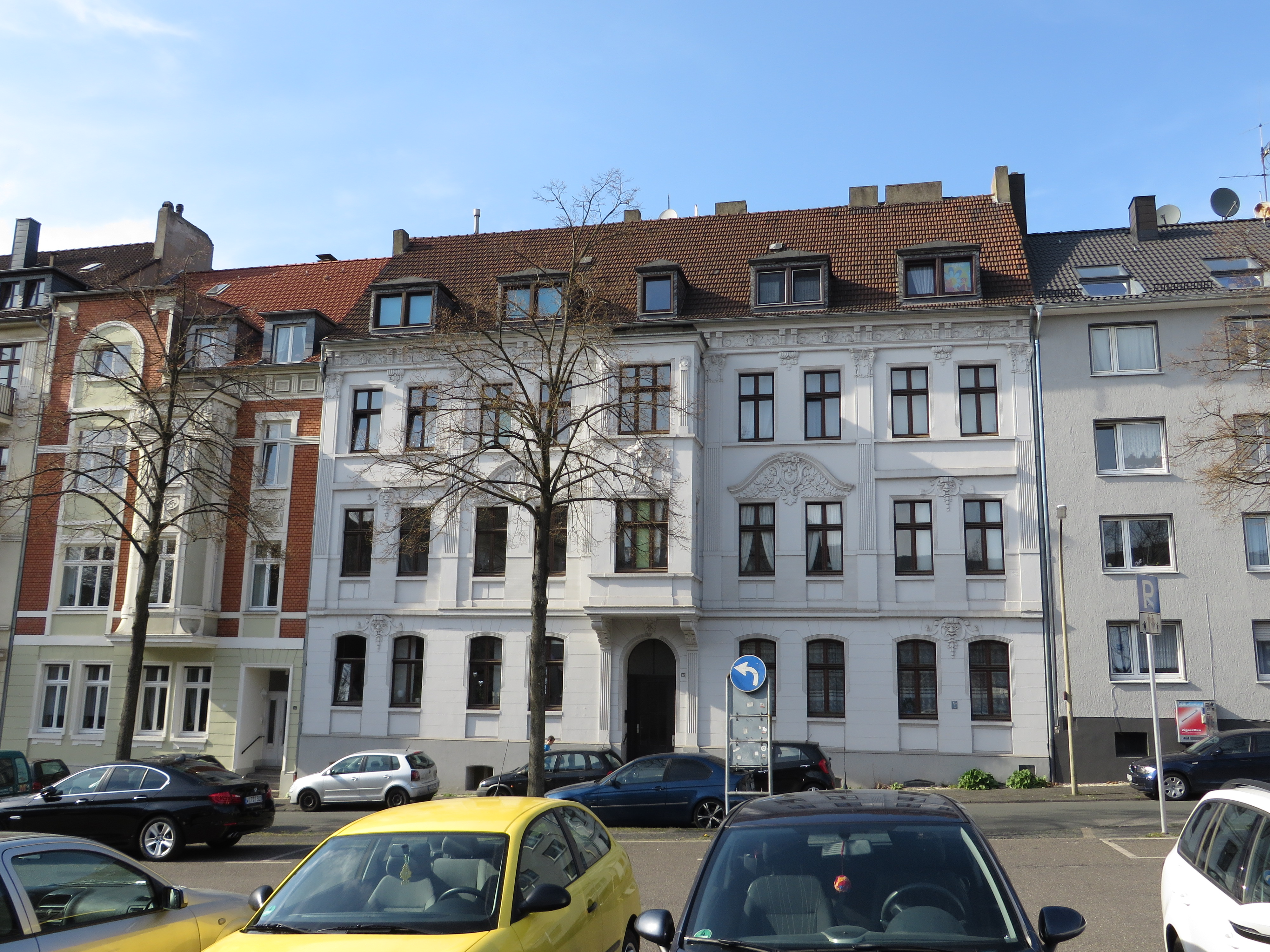 House Mozartstraße 12 in Witten, Germany